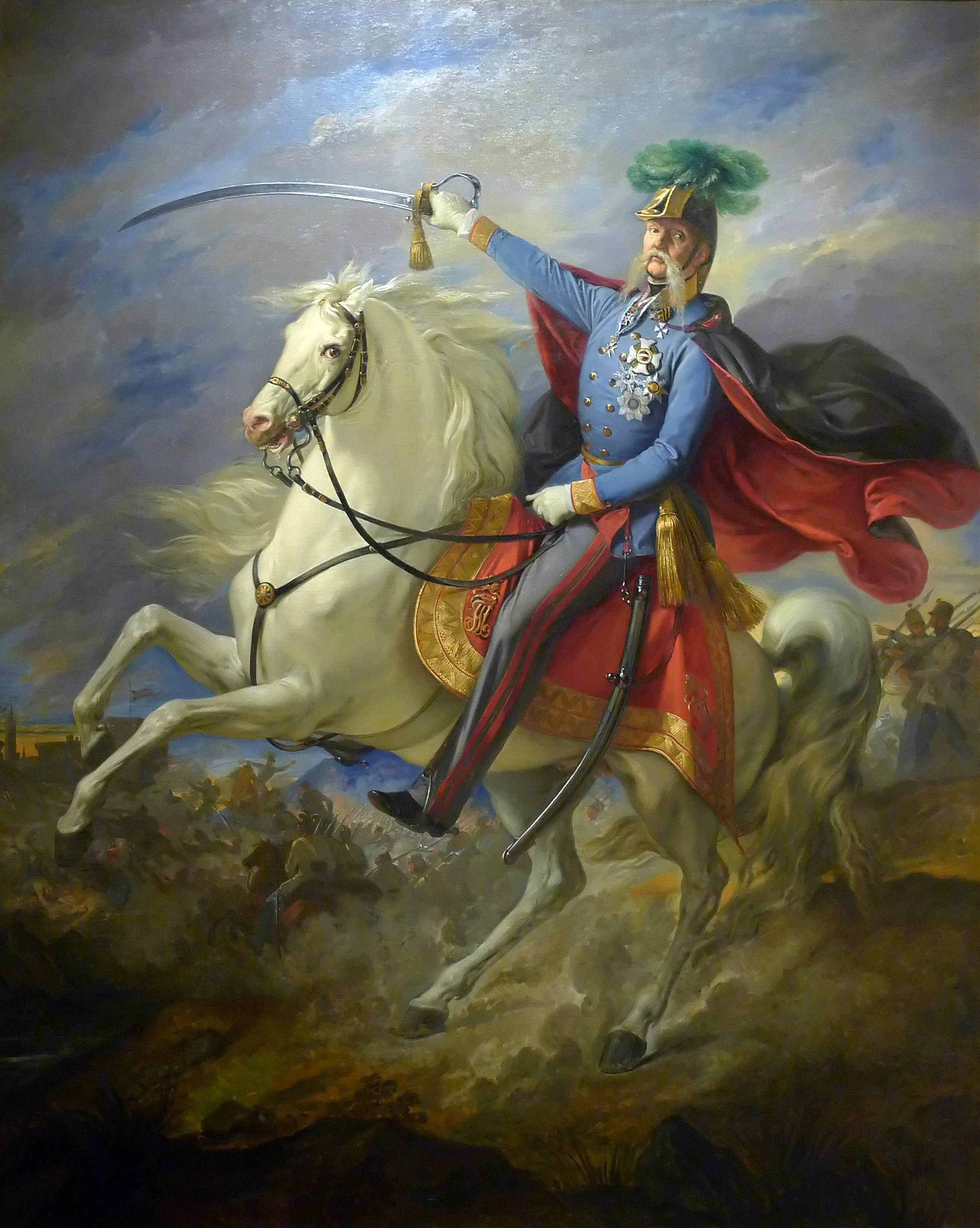 Julius Jacob von Haynau leading his troops in battle.